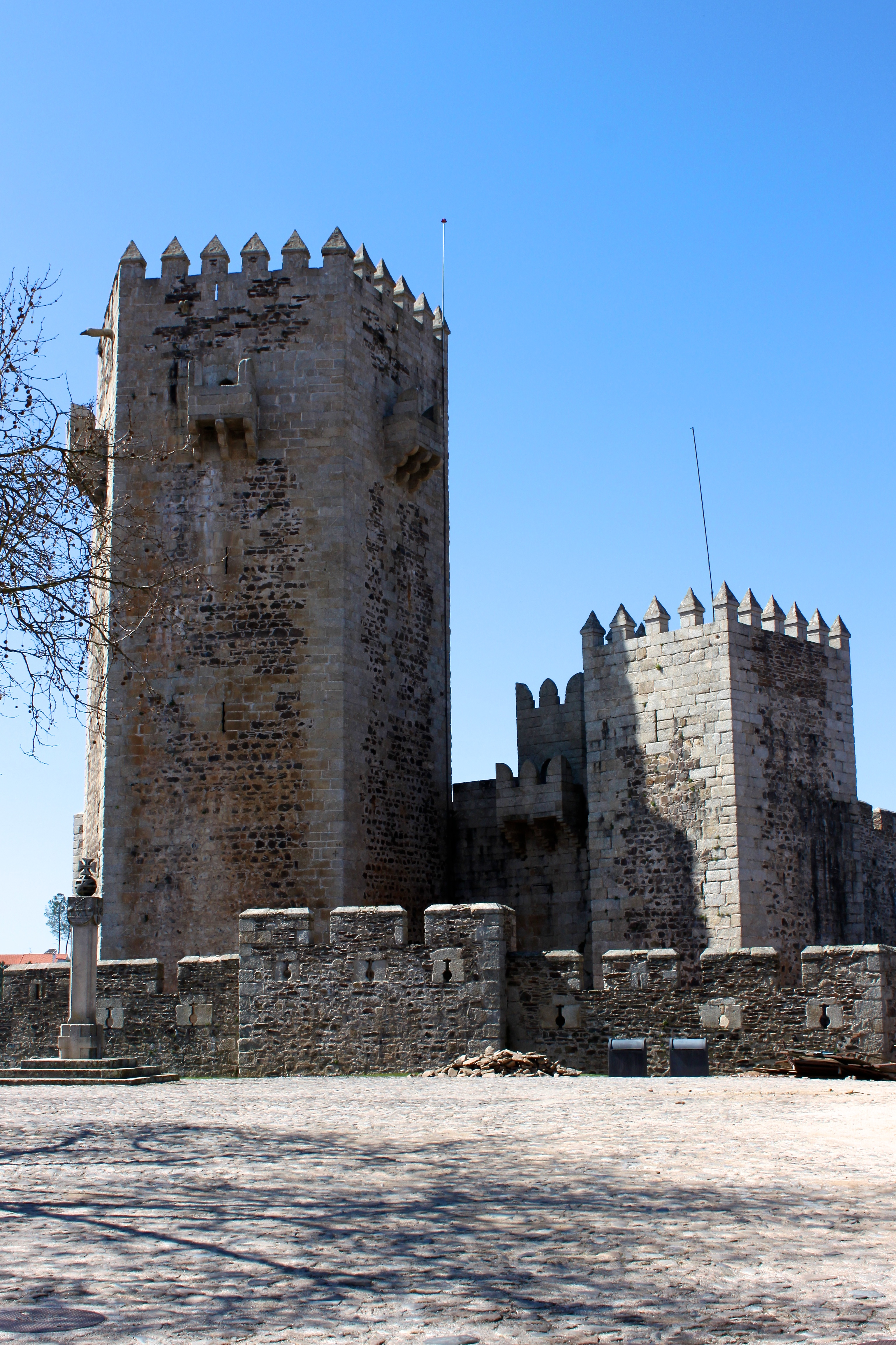 This file was uploaded for Wiki Loves Monuments in Portugal with the unique identifier 70564.